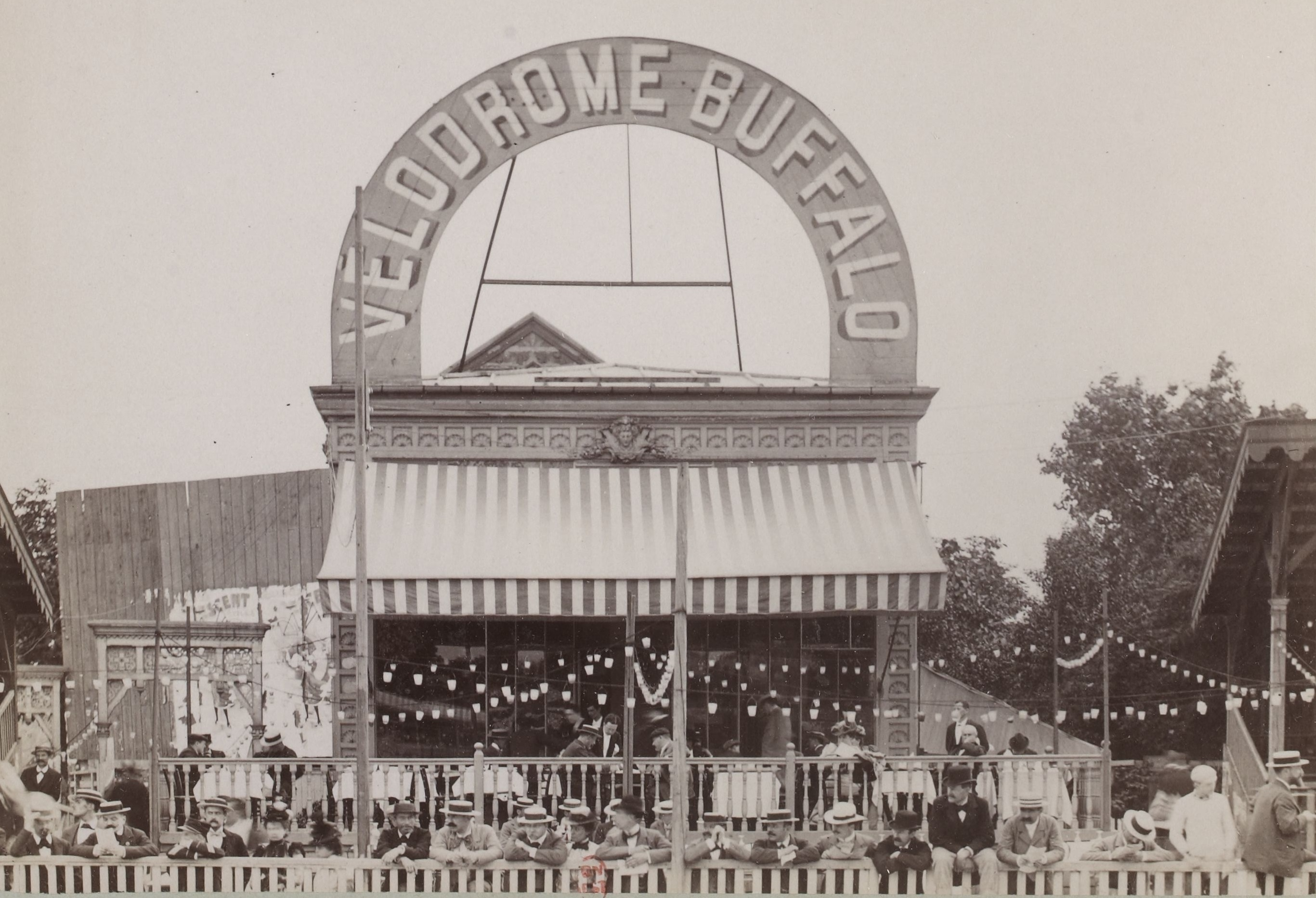 [Collection Jules Beau. Photographie sportive] : T. 5. Années 1897 et 1898 / Jules Beau : F. 26v. Madame Draher ; Bol d'Or, 1897